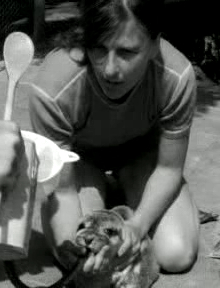 Lenie 't Hart at Zeehondencrèche Lenie 't Hart, the seal rehabilitation centre in Pieterburen, Groningen on 1 August 1972